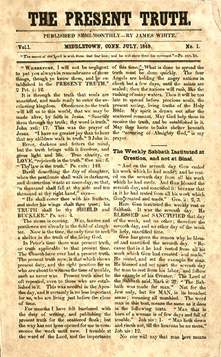 First edition of The Present Truth magazine (now the Adventist Review).